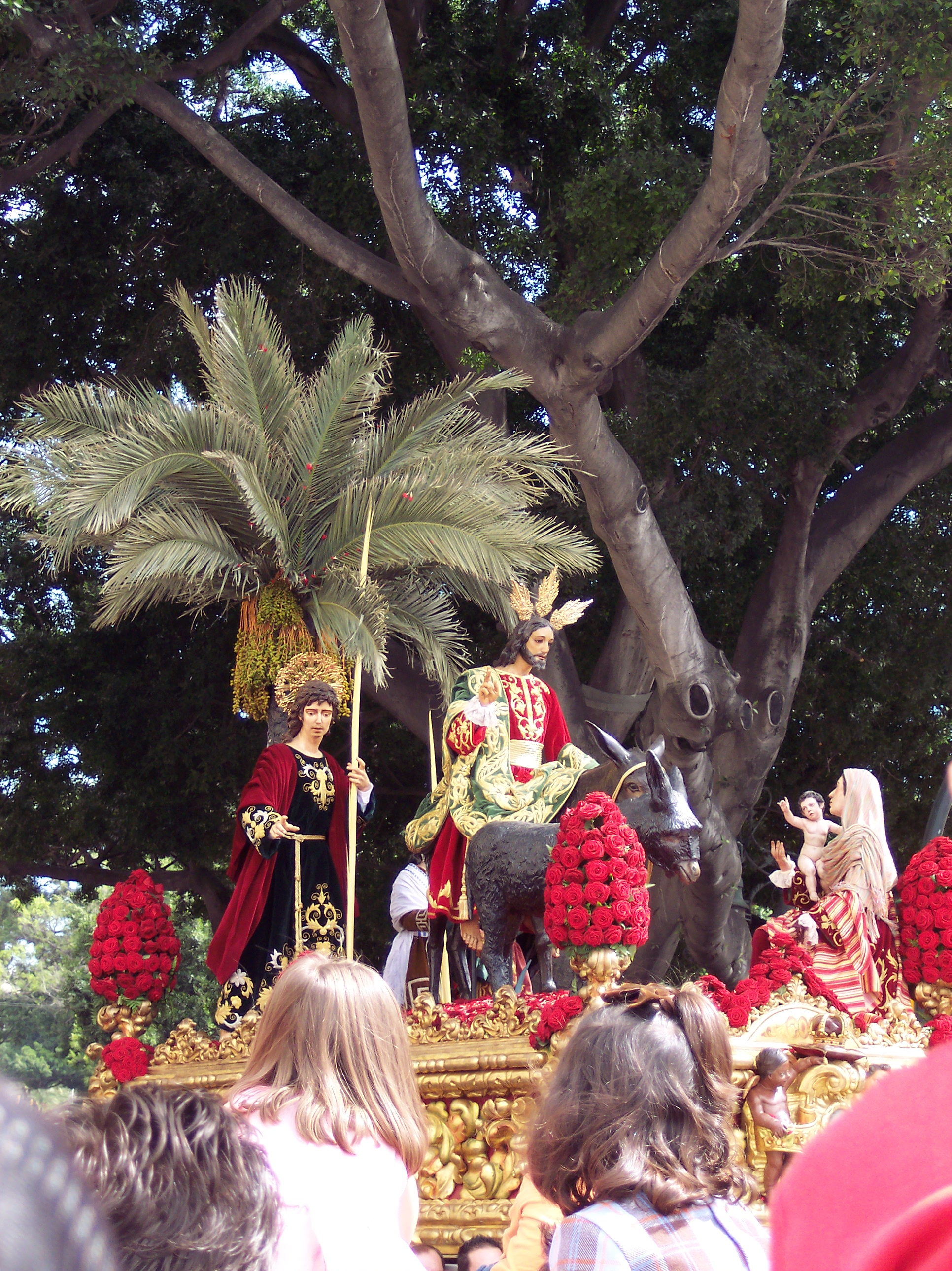 Procession of the Entry into Jerusalem (Pollinica), in Malaga (Spain)